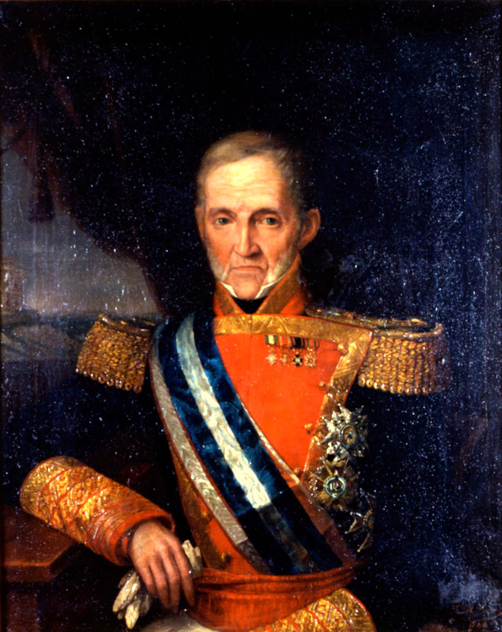 Portrait of the Admiral of the Spanish Navy Ramón Romay y Jiménez de Cisneros (1763- 1849)